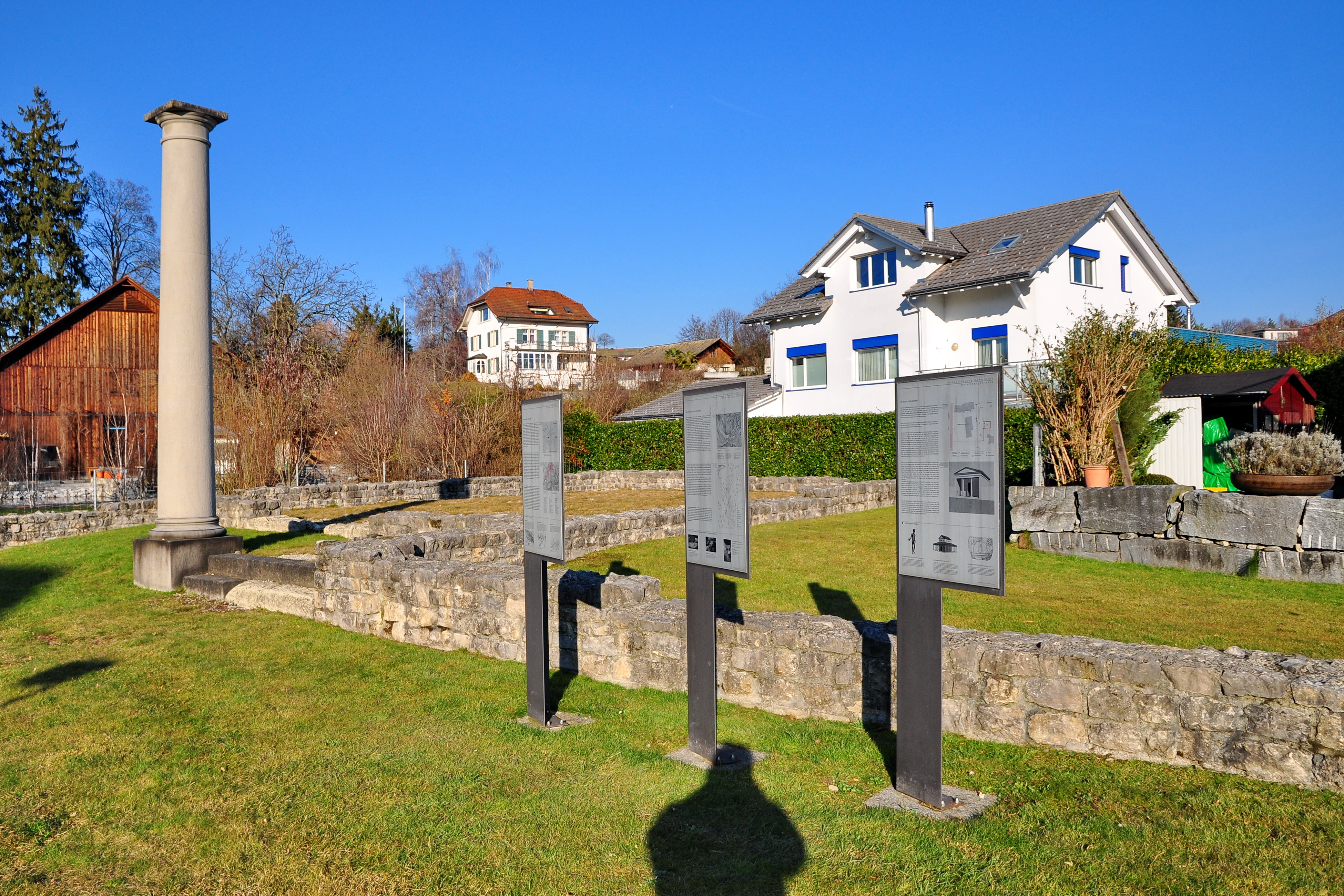 3rd century AD Roman walls of the former Roman vicus Centum Prata at Meienbergstrasse in Kempraten respectively Rapperswil (Switzerland)